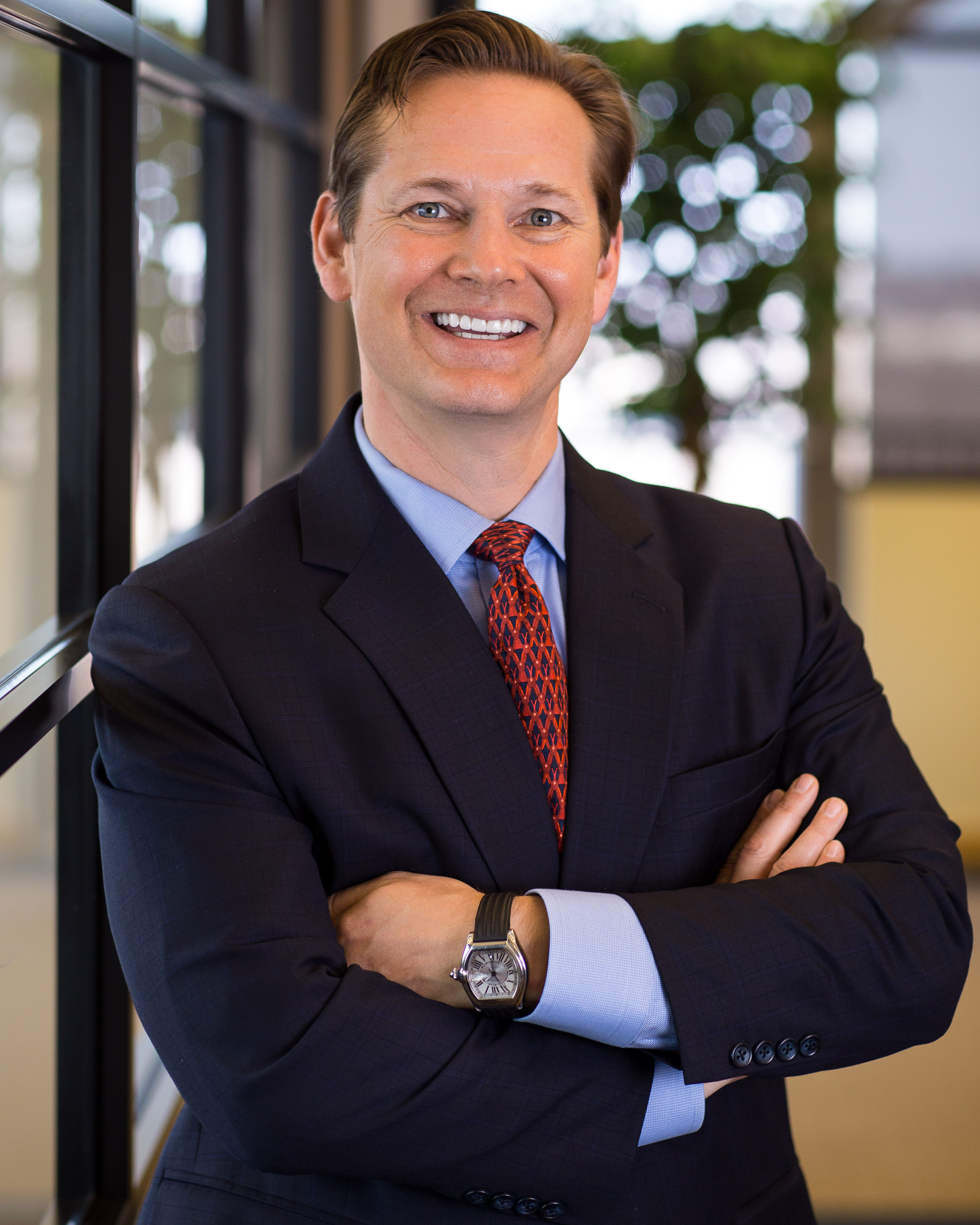 Official profile photo for Jeff Bell, CEO of LegalShield